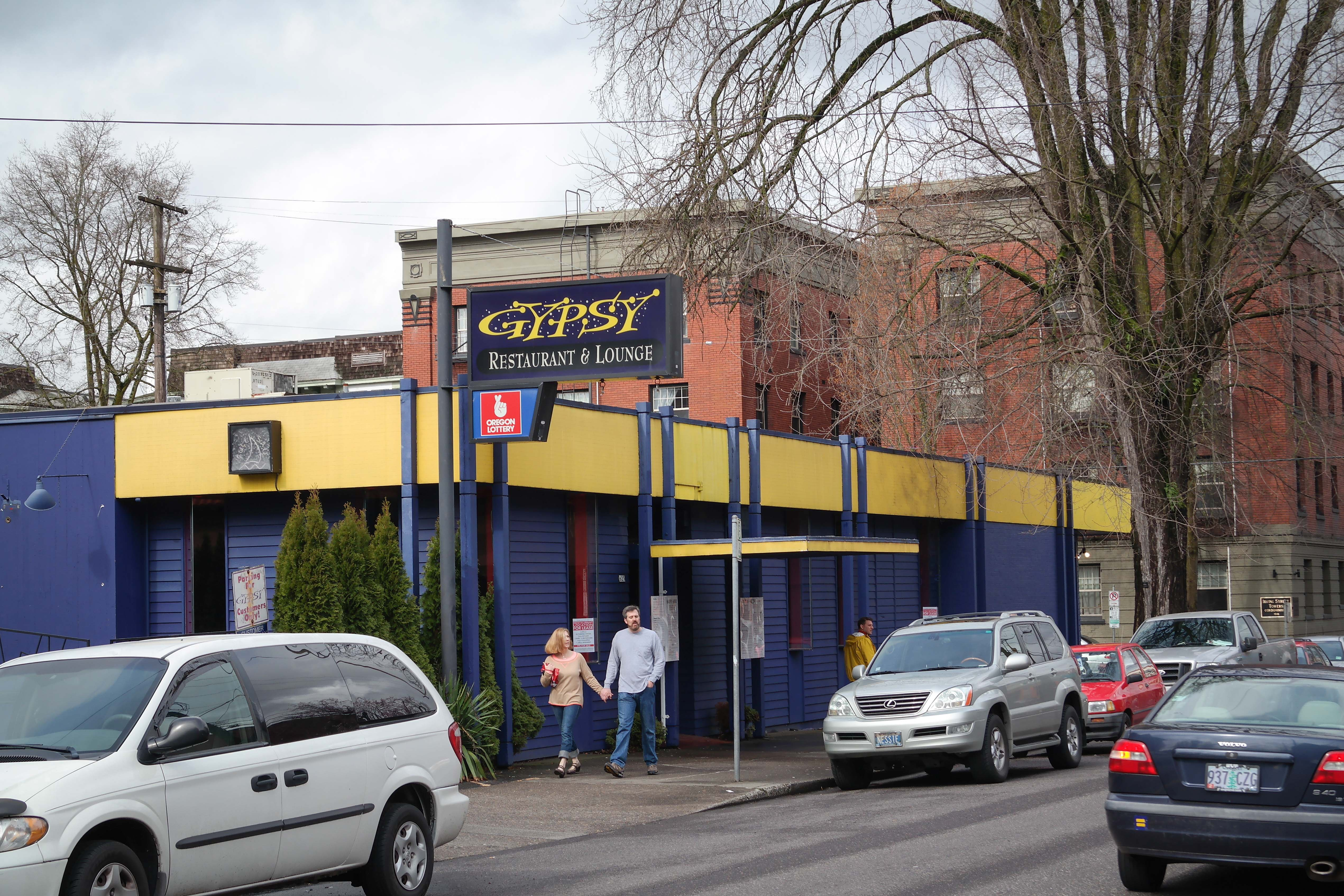 A view of the recently defunct Gypsy Restaurant and Velvet Lounge in Portland, Oregon